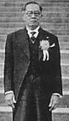 José P. Laurel, president of the Second Republic of the Philippines, 1943-1945